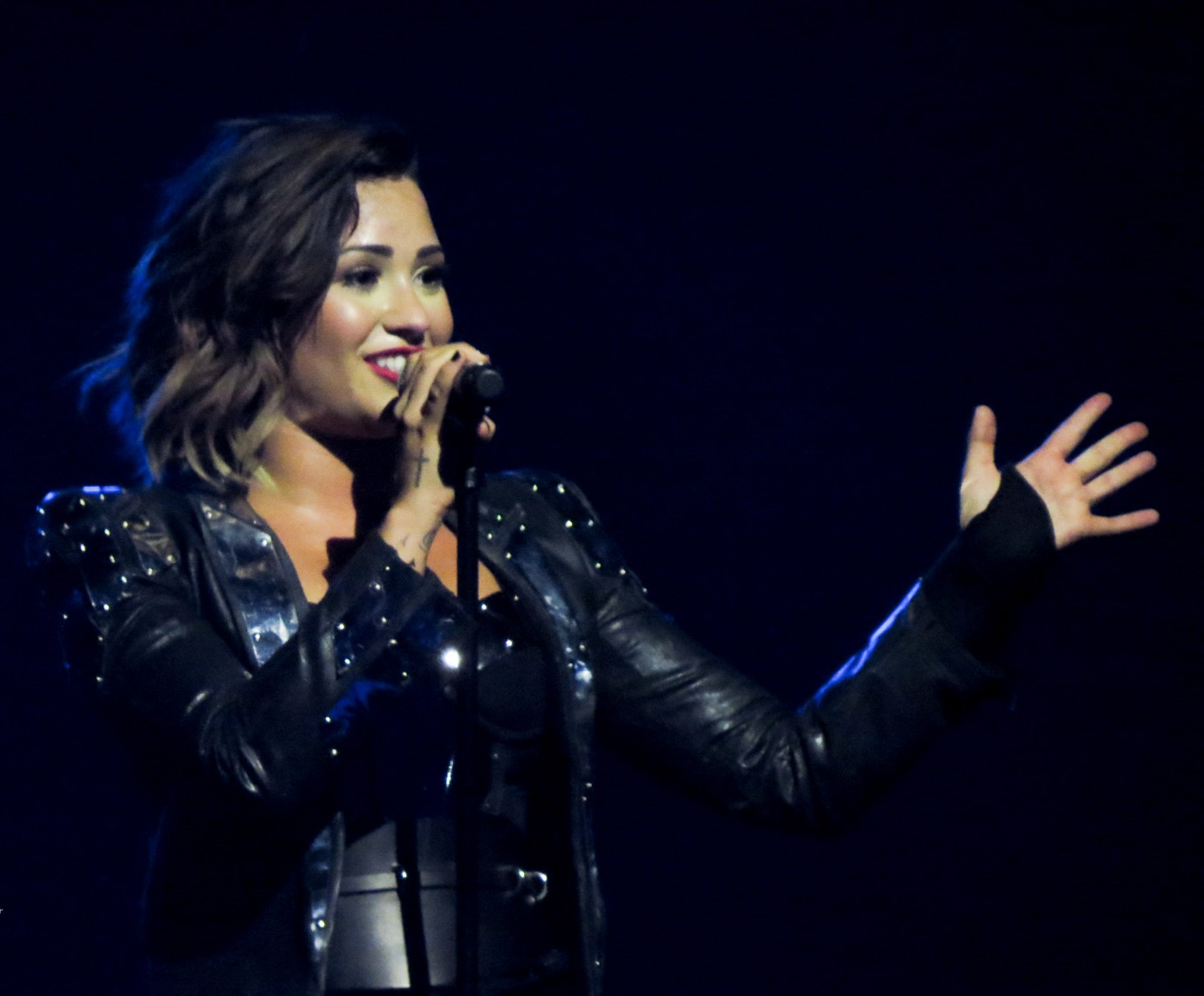 Demi Lovato performs at the Pepsi Center in Denver, CO on September 25, 2014.